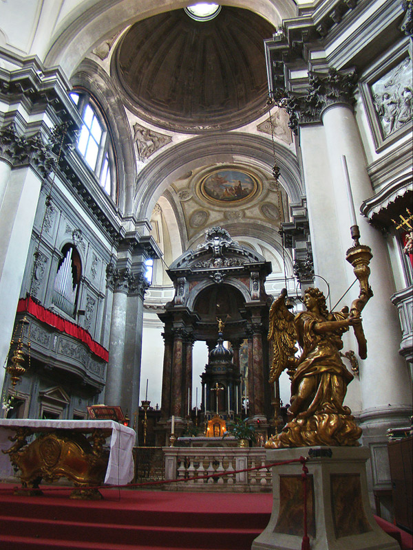 Church of Santa Maria del Rosario (I Gesuati), Venice, Veneto, Italy. The High Altar.